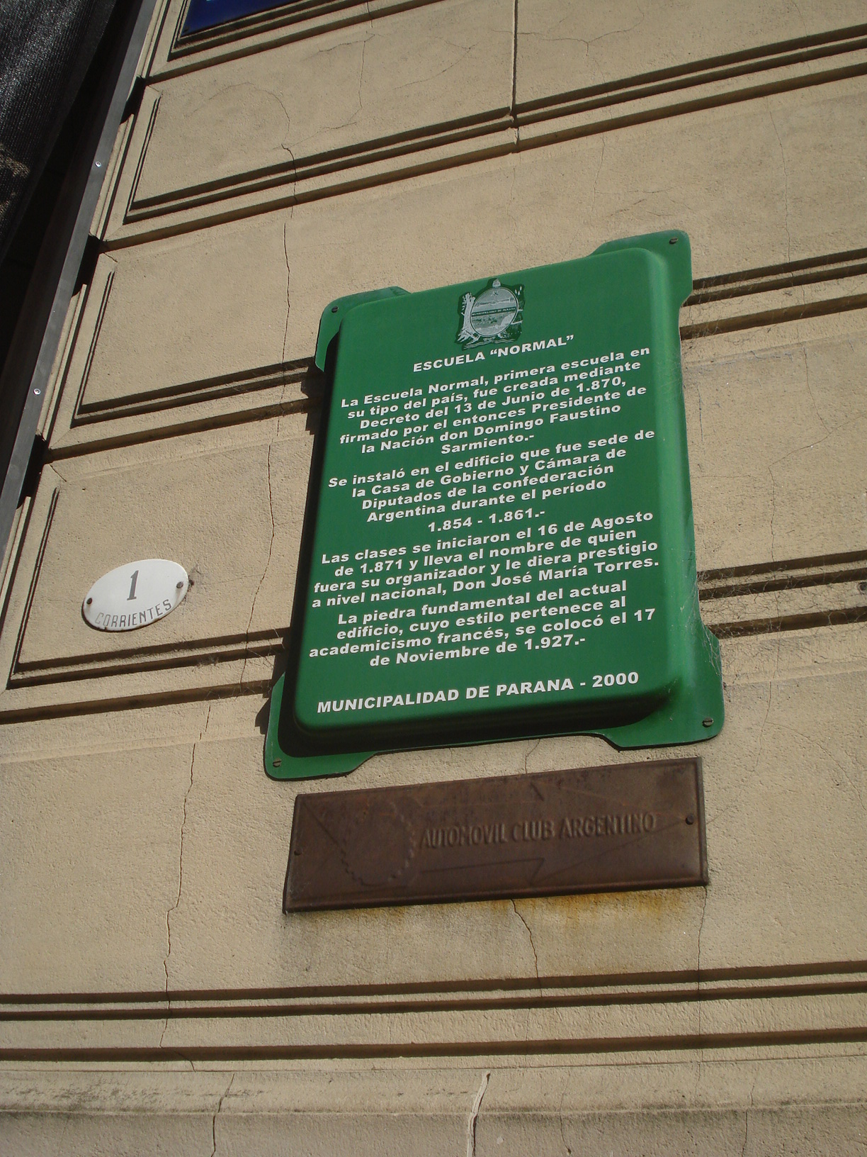 Touristic sign outside the Escuela Normal "José María Torres" of the city of Paraná, Entre Ríos province, Argentina.